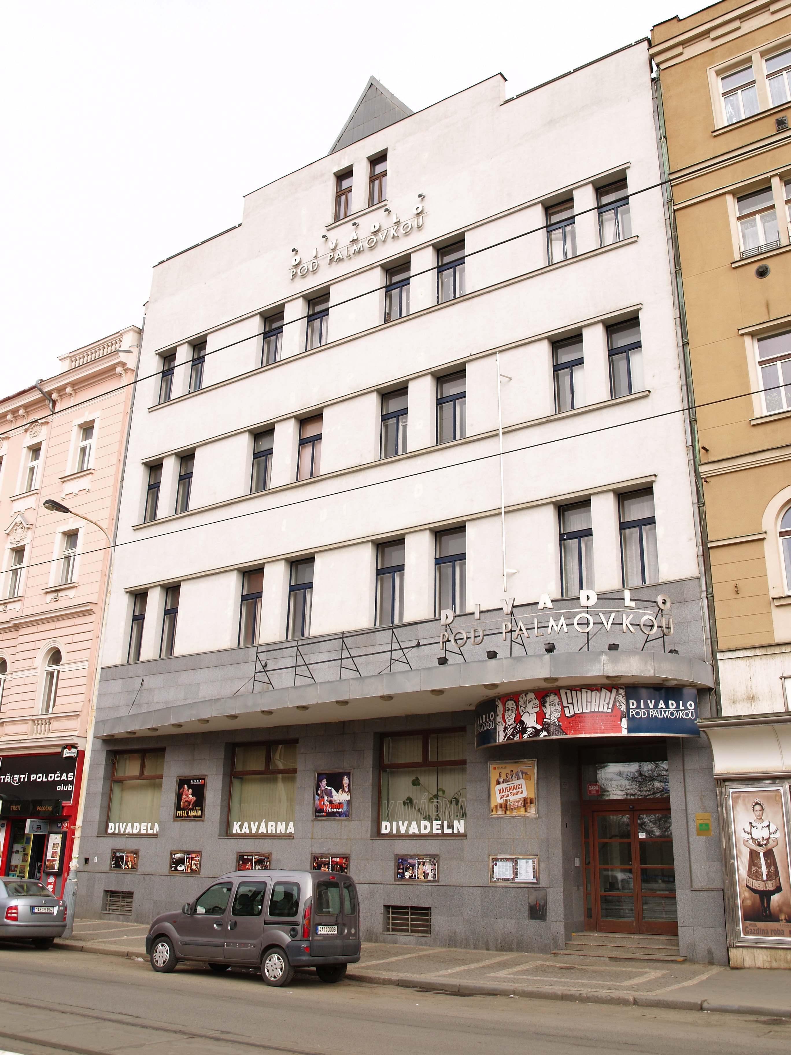 Divadlo pod Palmovkou—theatre in Czech capital Prague